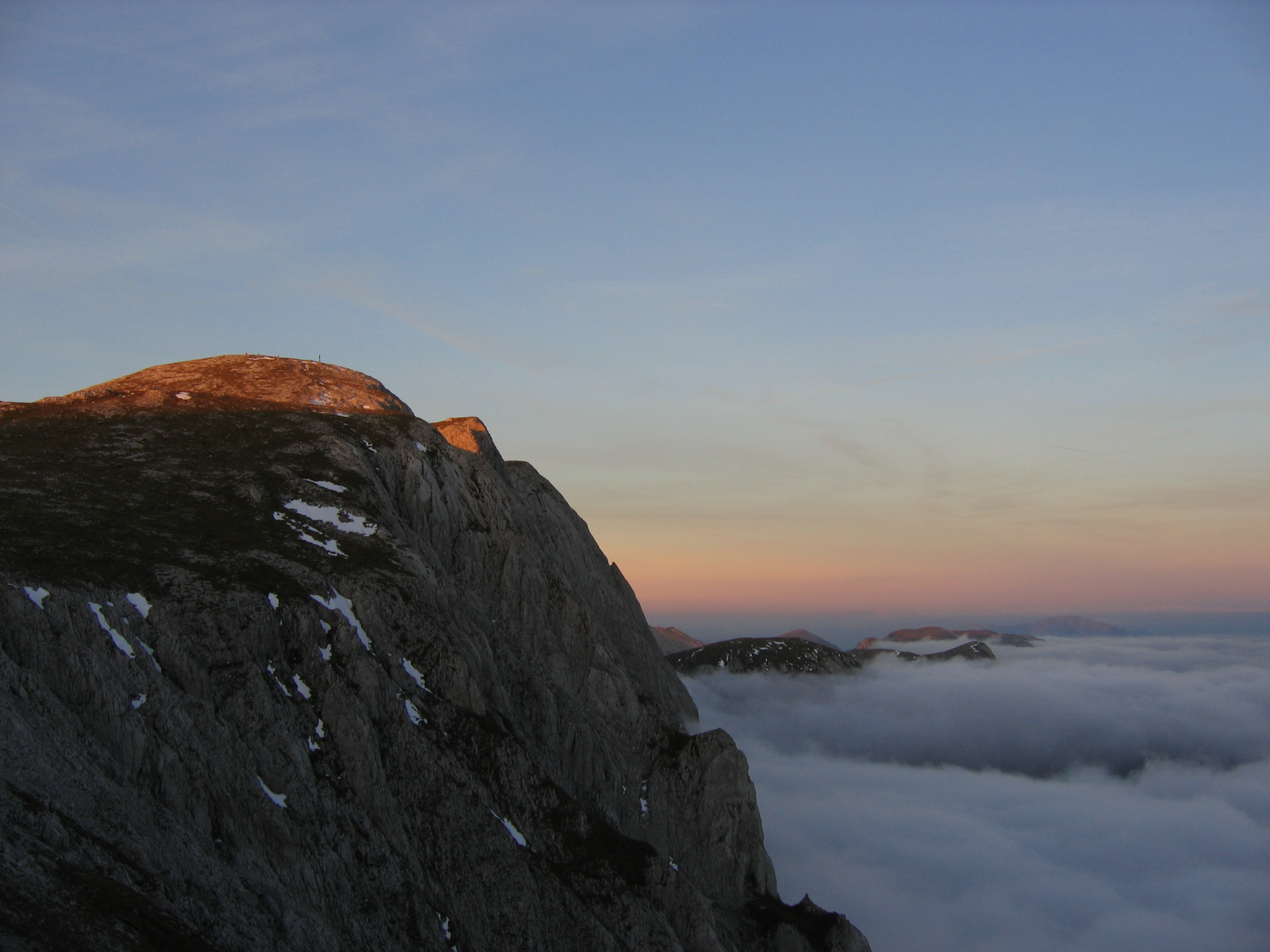 Picture of the Hochschwab at Sunset